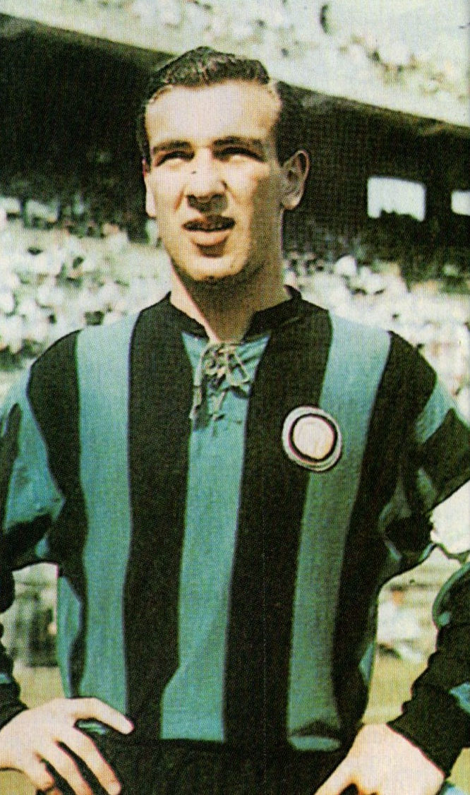 Italian-Argentine footballer Antonio Valentín Angelillo as captain of Inter Milan in the 1958–59 season, posing inside San Siro in Milan, Italy.